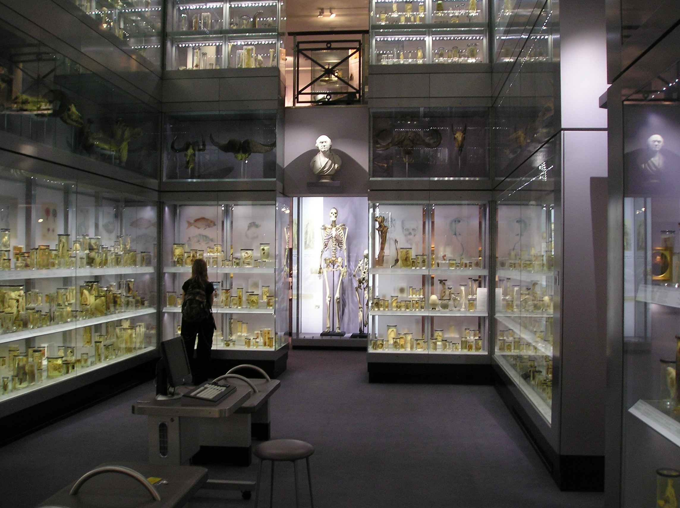 This photo was taken by me, Paul Dean (StoneColdCrazy), in September 2007, and shows a part of the Hunterian Collections on display at The Royal College of Surgeons of England.